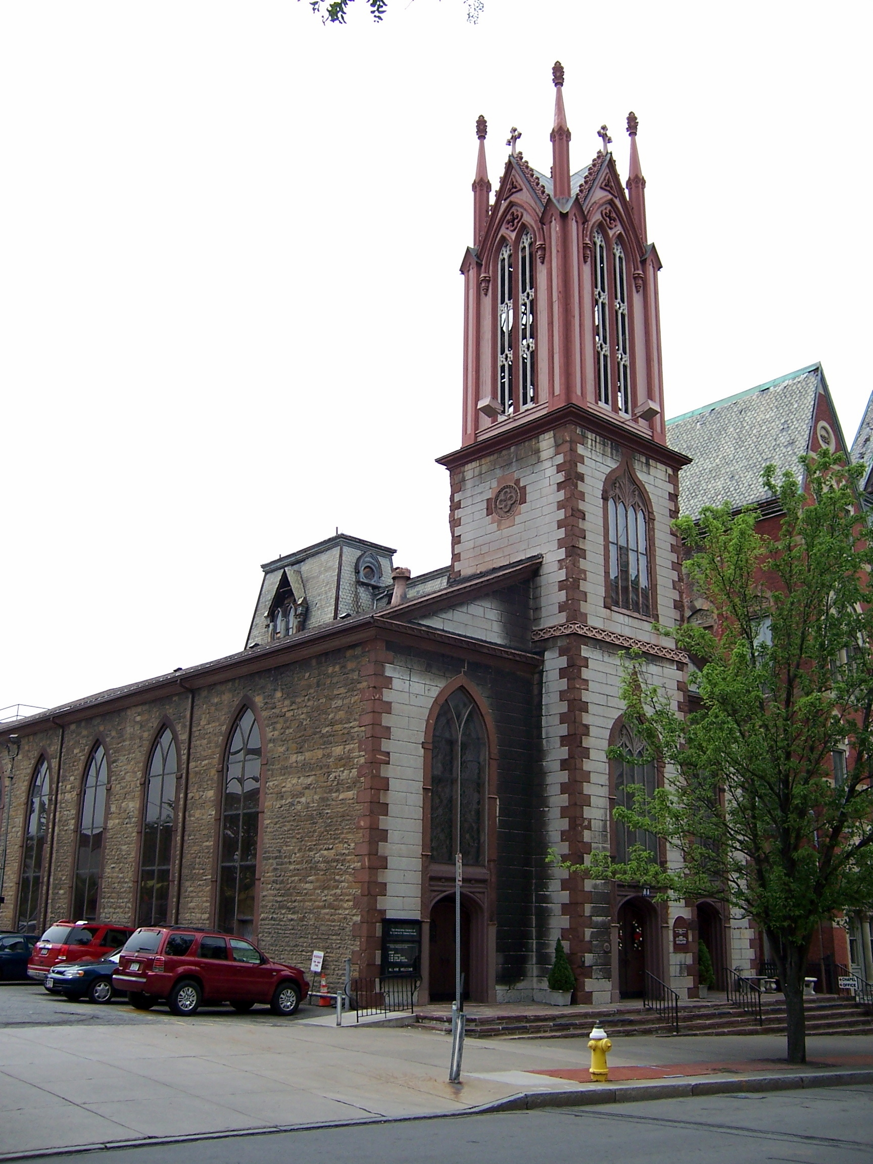 St. Luke's Episcopal Church in downtown Rochester, New York. It is listed on the National Register of Historic Places as part of the City Hall Historic District.